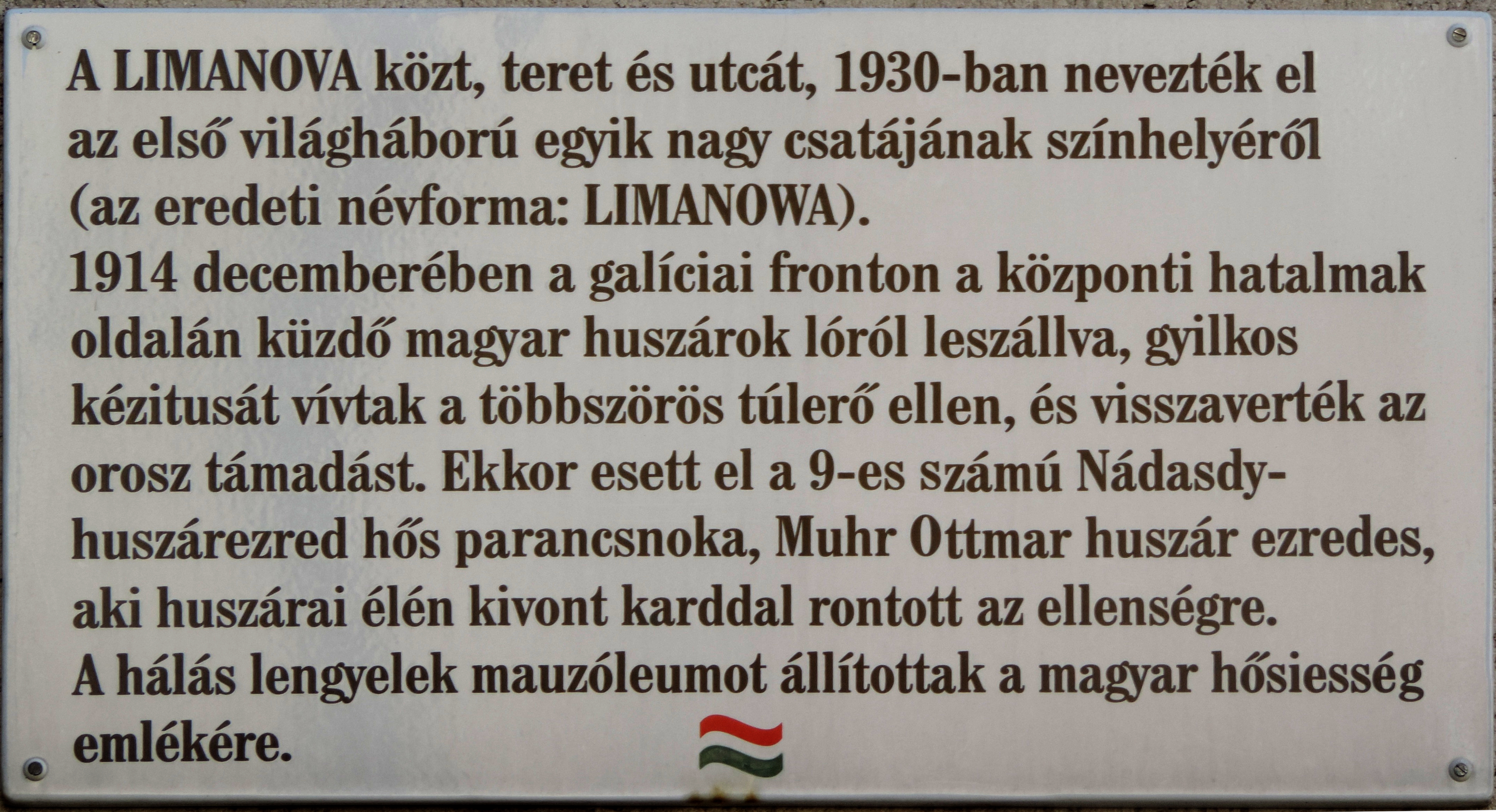 Plaque to Battle of Limanowa in Budapest XIV, Limanova tér 11.